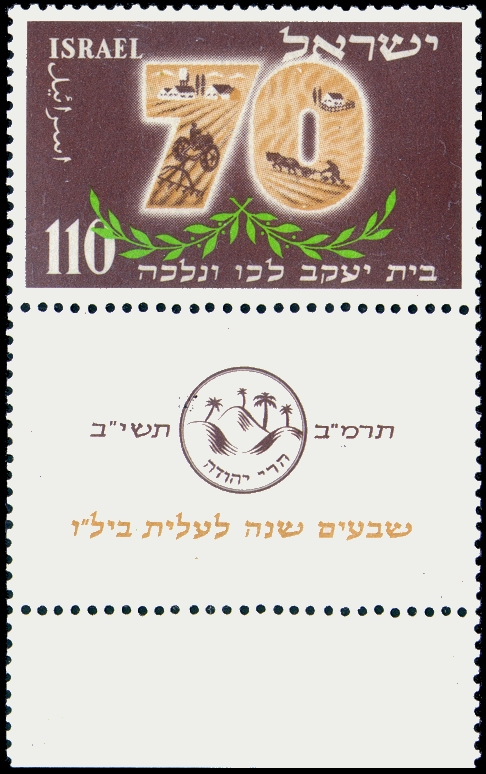 BILU stamp - 110 mil. Commenting 70th anniversary of the BILU Aliyah. Inscription: "O house of Jacob, come ye, and let us go up". Inscription on tab: "1882 - 1952", "The mountains of Judah", "Seventieth anniversary of the immigration of Bilu".